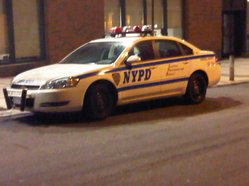 NYPD School Safety Chevrolet Impala police car photographed in NYC.